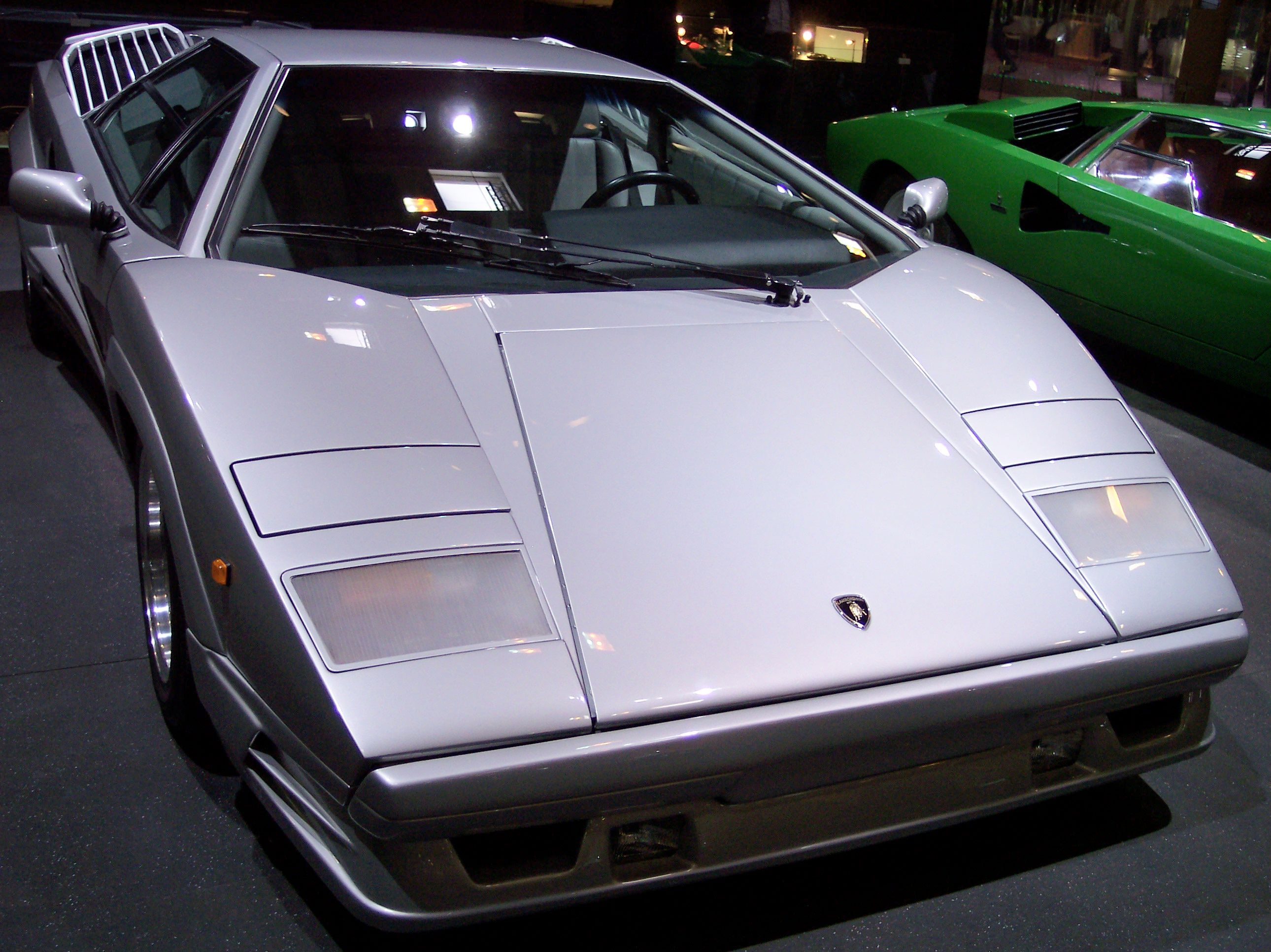 Lamborghini Countach